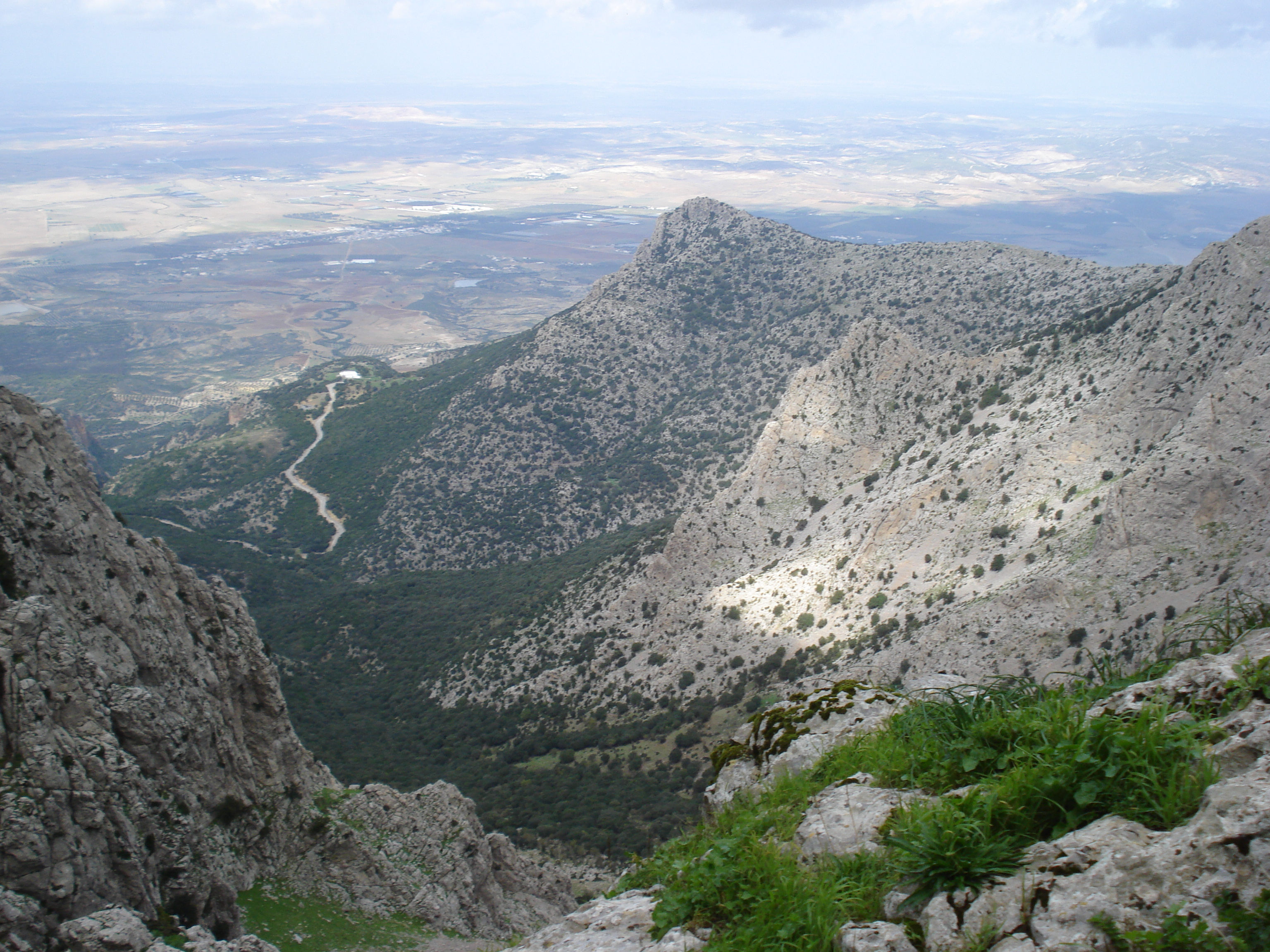 Jebel Zaghouan tel que vu depuis son sommet, Zaghouan, Tunisie